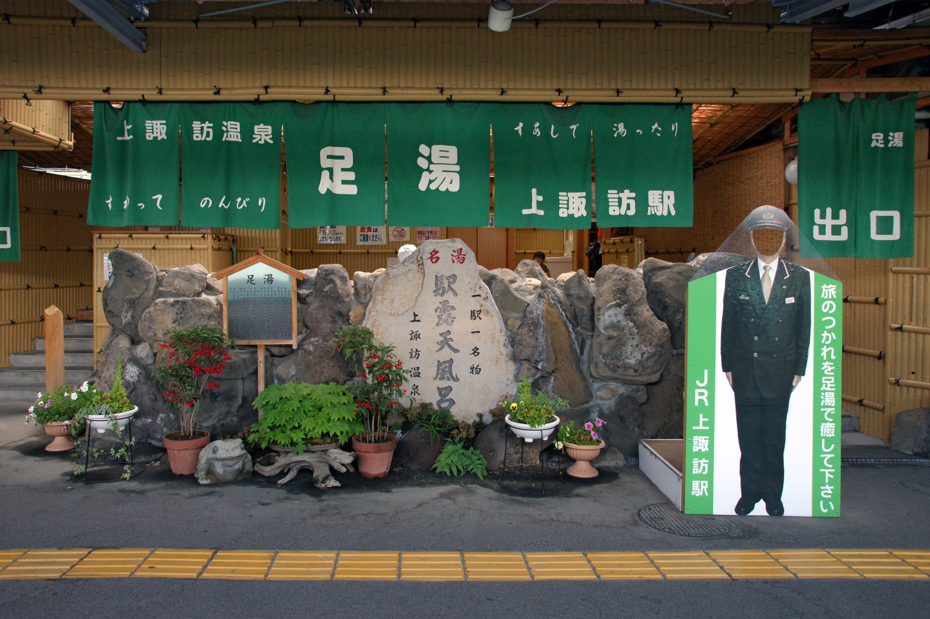 Kamisuwa Station, Suwa, Nagano prefecture, Japan